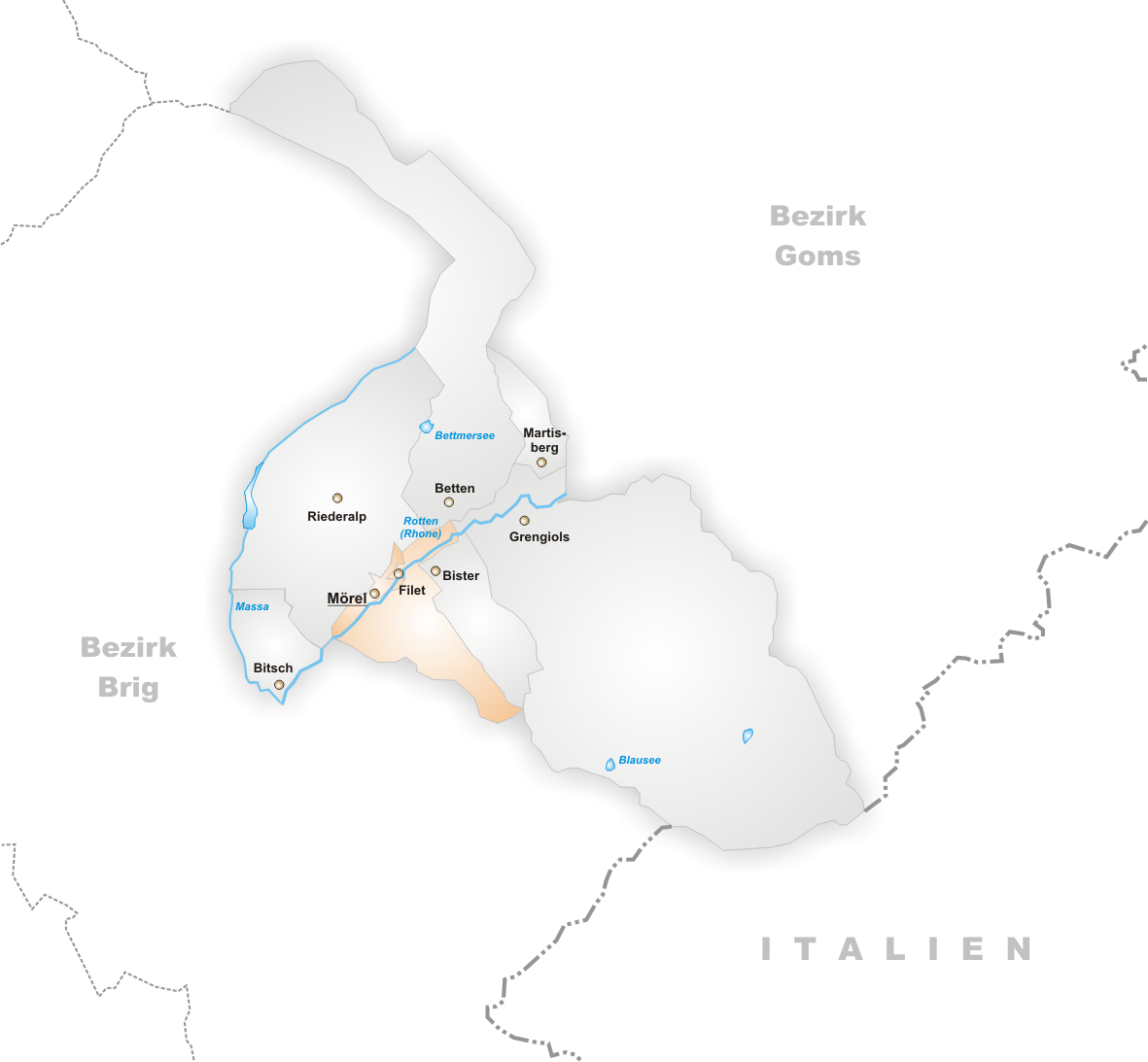 Municipalities of District Östlich Raron until 2008